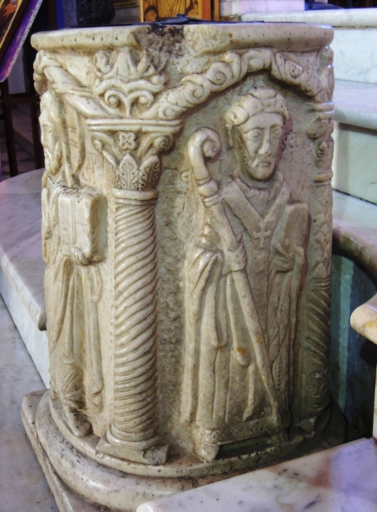 St Adalbert, the 2nd bishop of Prague, on the well at San Bartolomeo allIsola, Rome